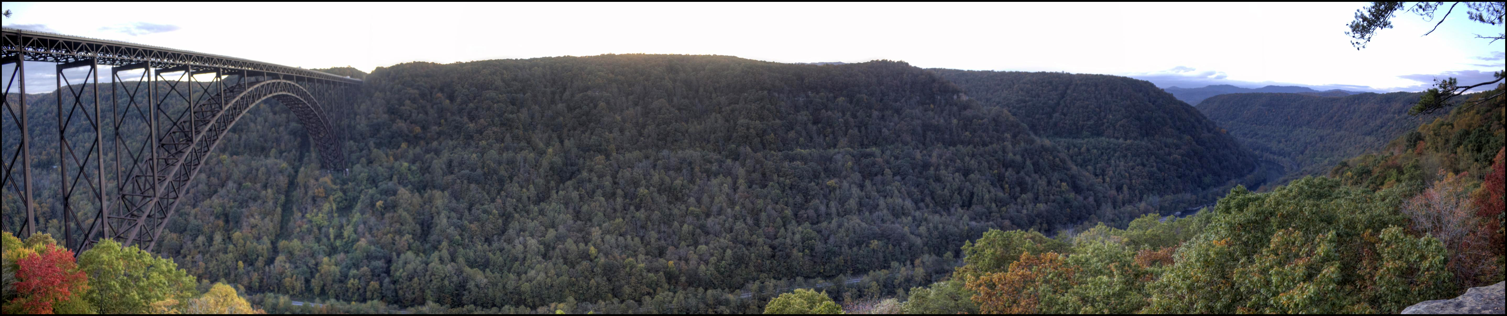 Panorama of the New River Gorge Bridge